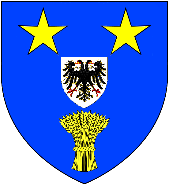 Nicolas Psaume